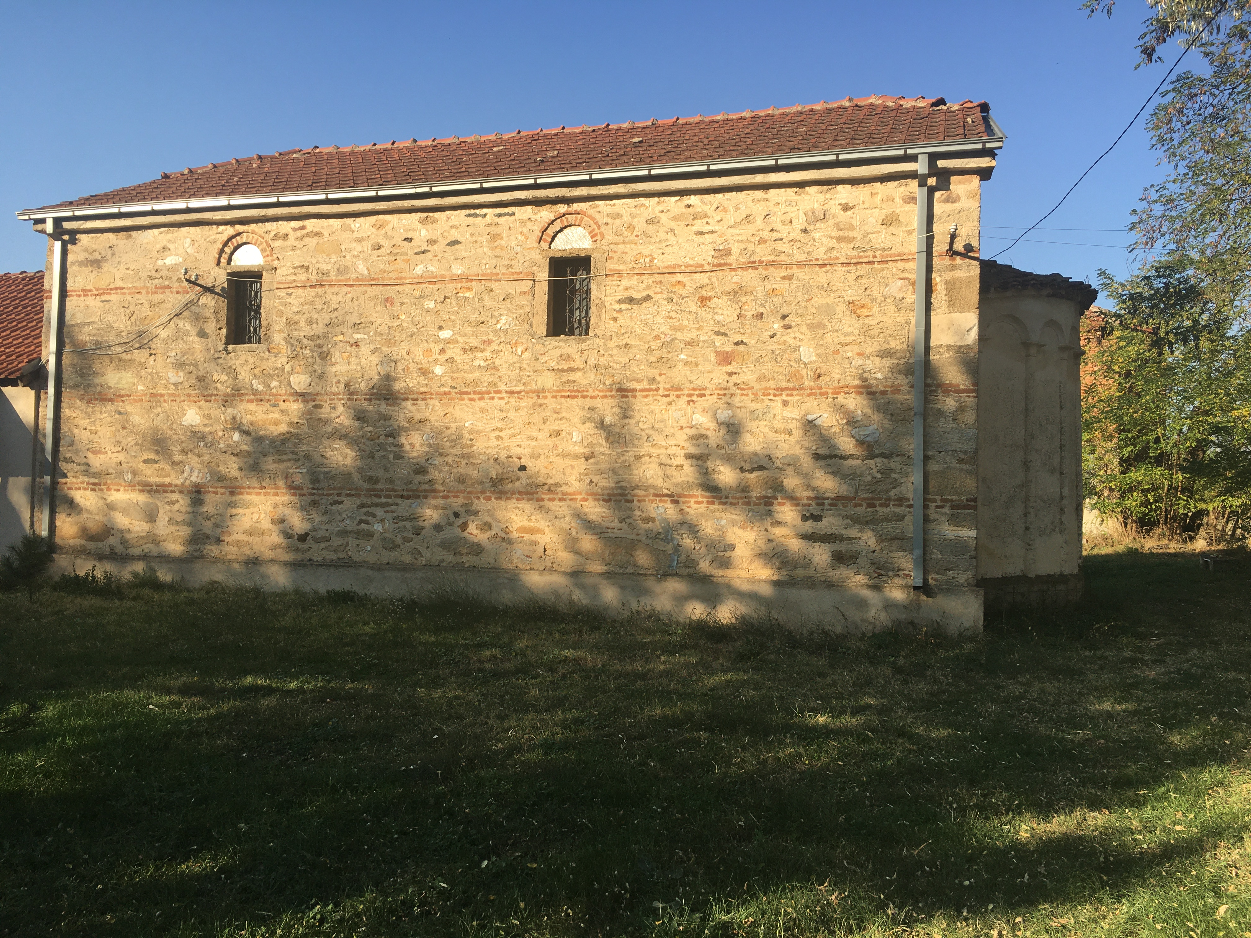 St. Athanasius Church in the village of Senokos